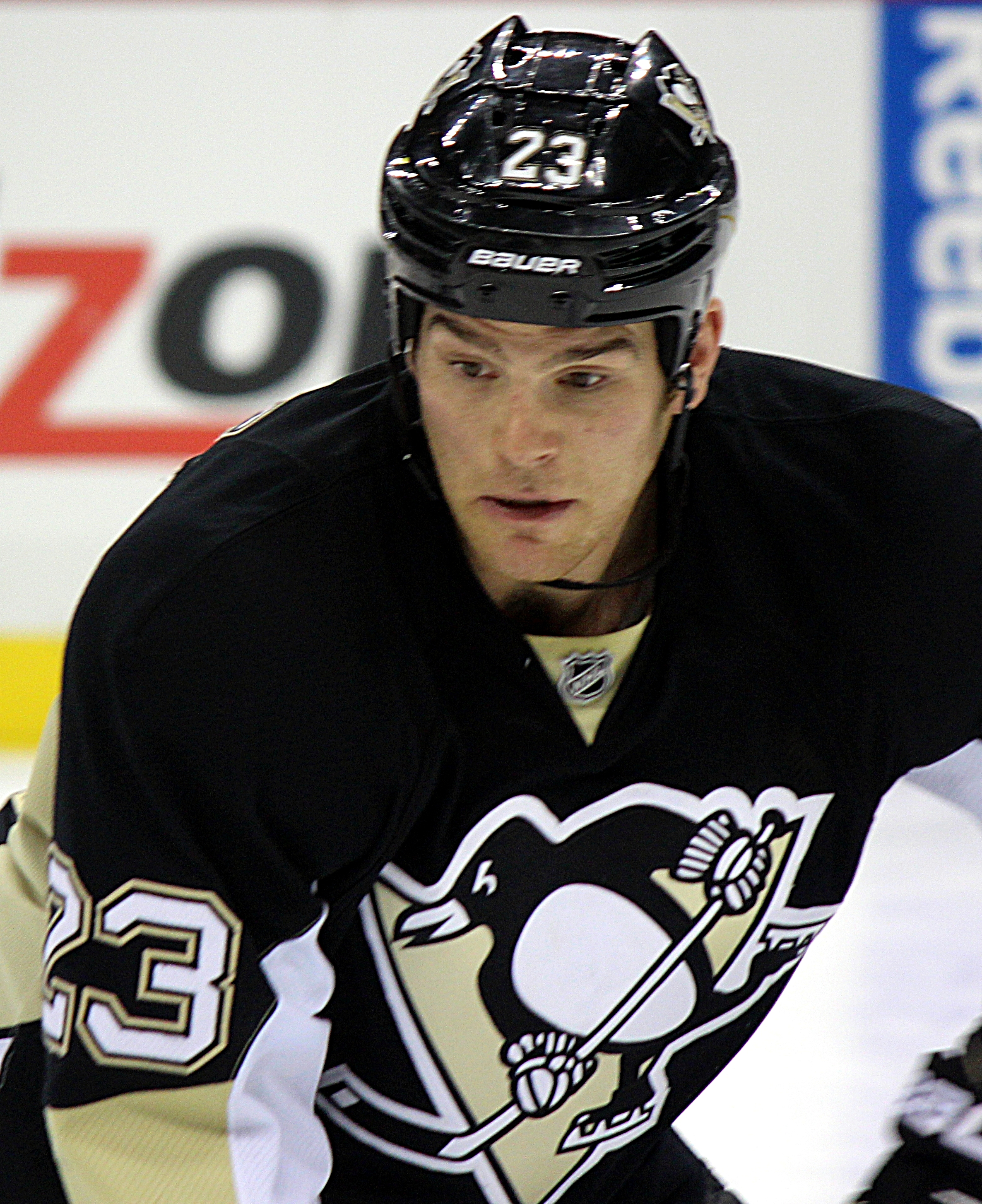 Pittsburgh Penguins forward Steve Downie during a game against the Calgary Flames, December 12, 2014, at Consol Energy Center in Pittsburgh, PA.